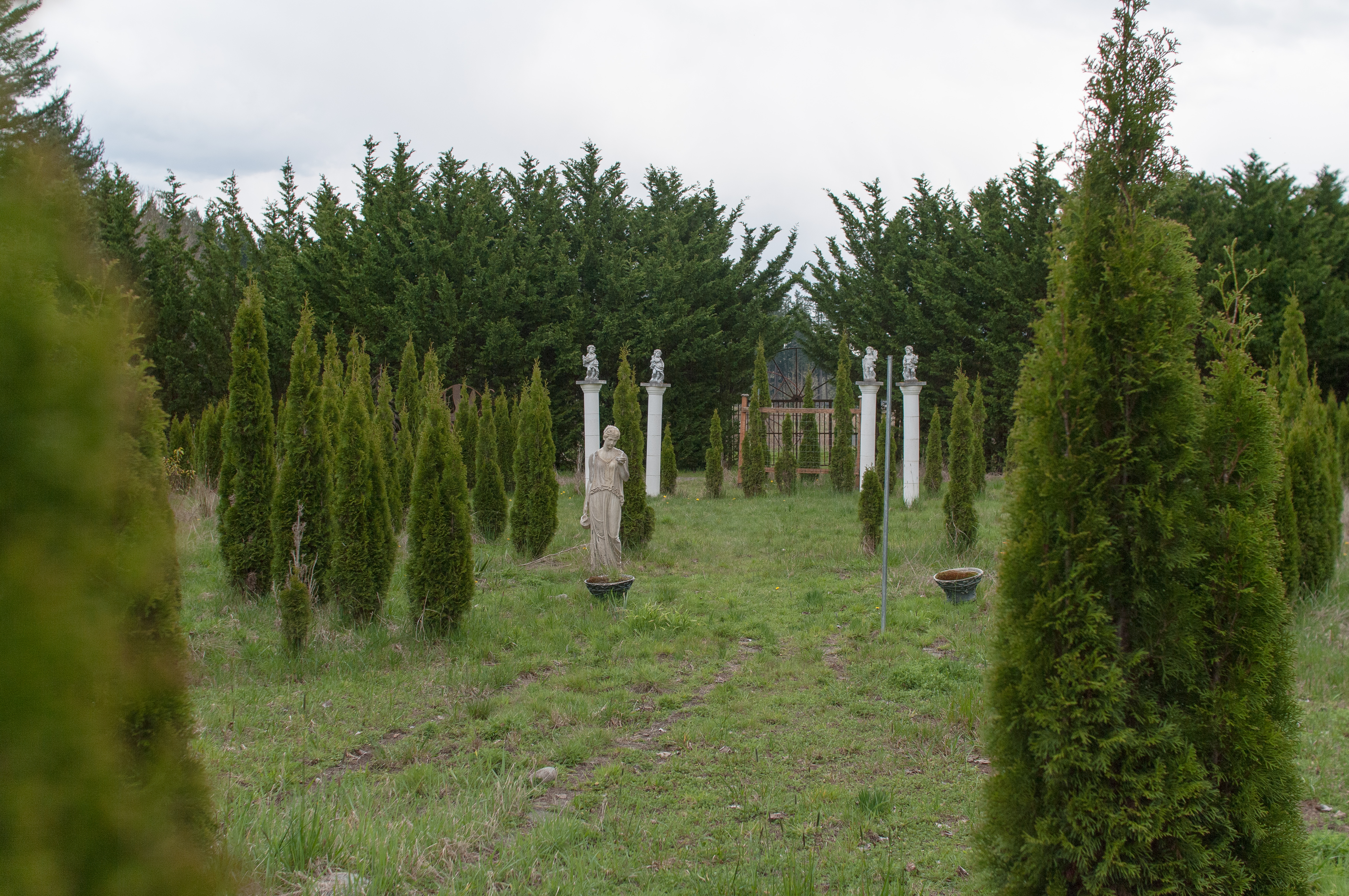 Near the rear of the Monarch Contemporary Art Center and Sculpture Park